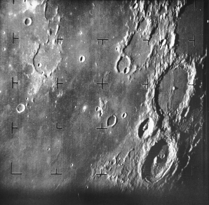 Ranger 7 took this image, the first picture of the Moon by a U.S. spacecraft, on 31 July 1964 at 13:09 UT (9:09 AM EDT)about 17 minutes before impacting the lunar surface. The area photographed is centered at 13 S, 10 W and covers about 360 km from top to bottom. The large crater at center right is the 108 km diameter Alphonsus. Above it is Ptolemaeus and below it Arzachel. The terminator is at the bottom right corner. Mare Nubium is at center and left. Nor this at about 11:00 at the center of the frame. The Ranger 7impact site is off the frame, to the left of the upper left corner. (Ranger 7, B001)